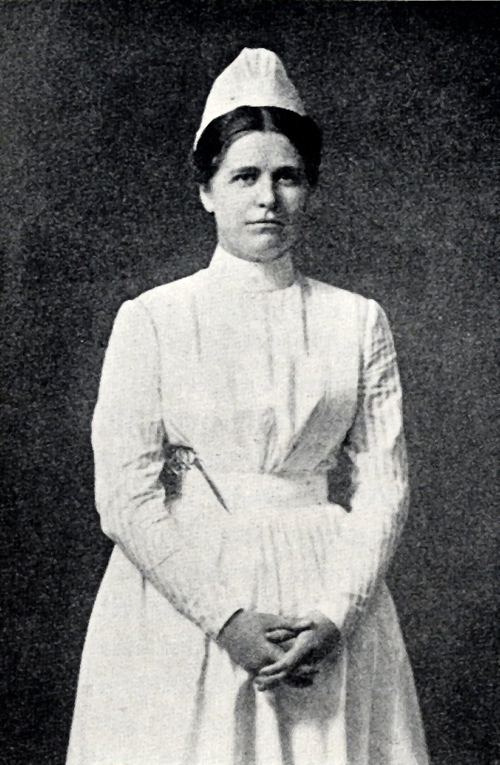 Photograph of the Danish nurse Charlotte Munck.